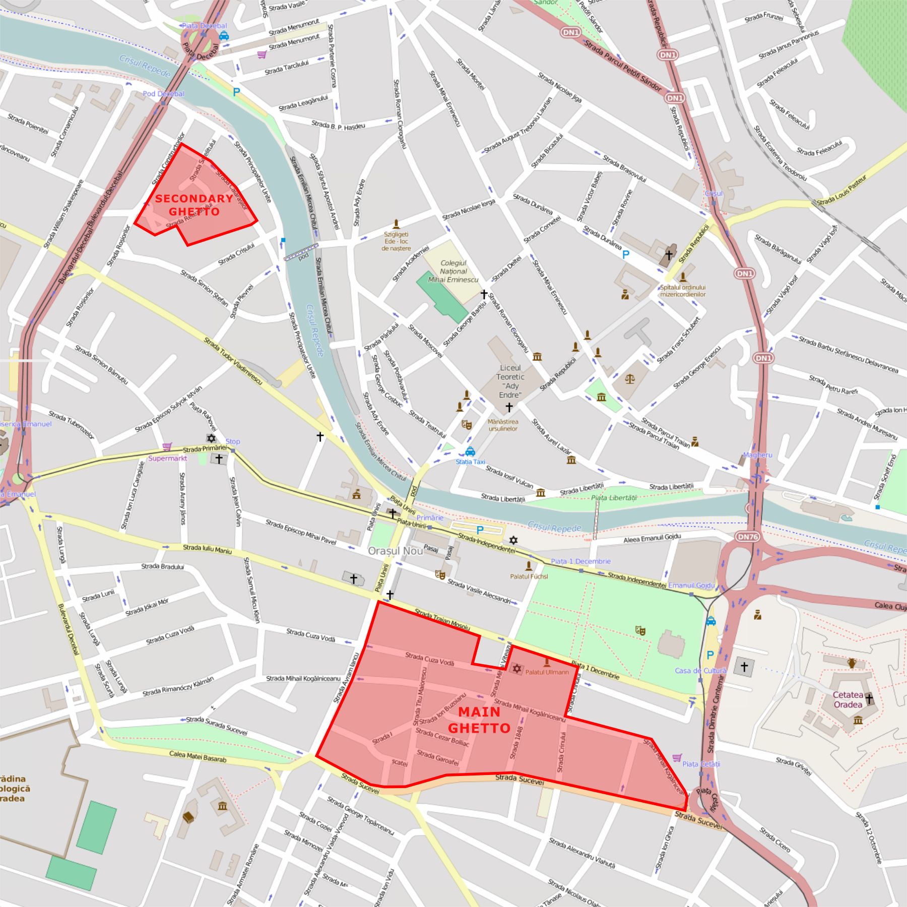 Map of the Jewish Ghettos of Oradea, Romania (within Hungary at the time), spring 1944Română: Harta ghetoului din Oradea